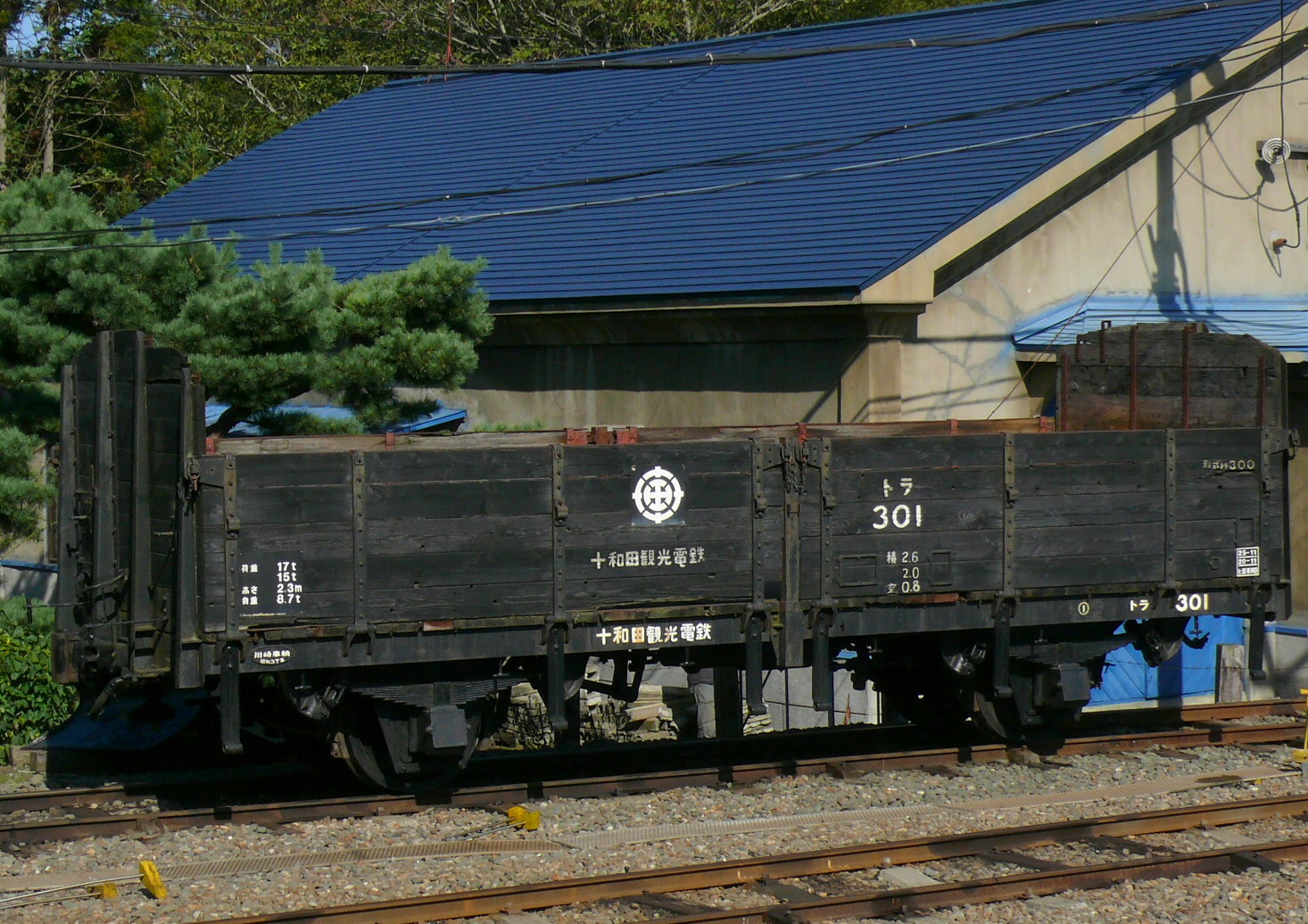 Towada Kanko Electric Railway Type Tora 301. (Aomori Prefecture)